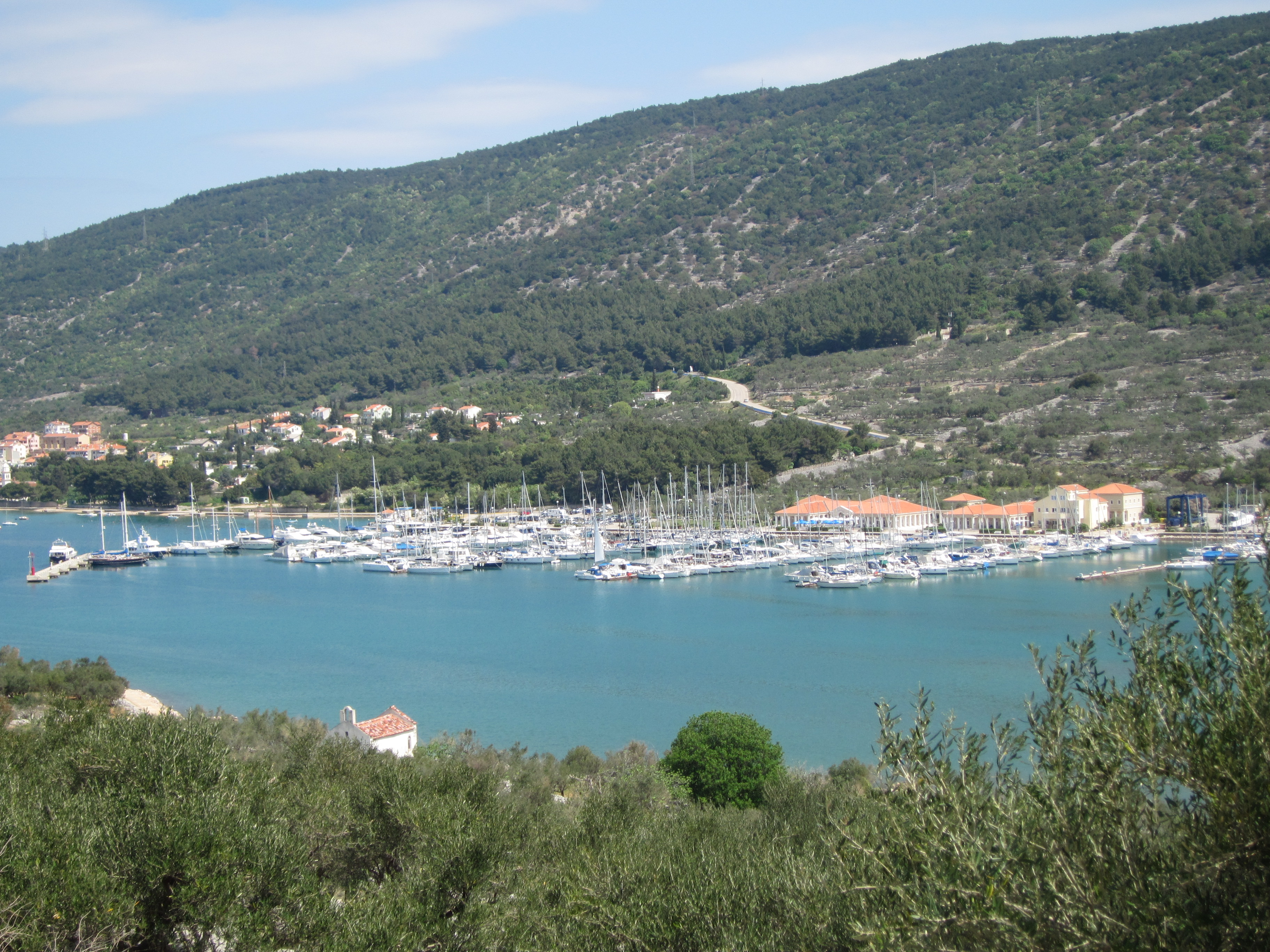 Marina Cres, Croatia.